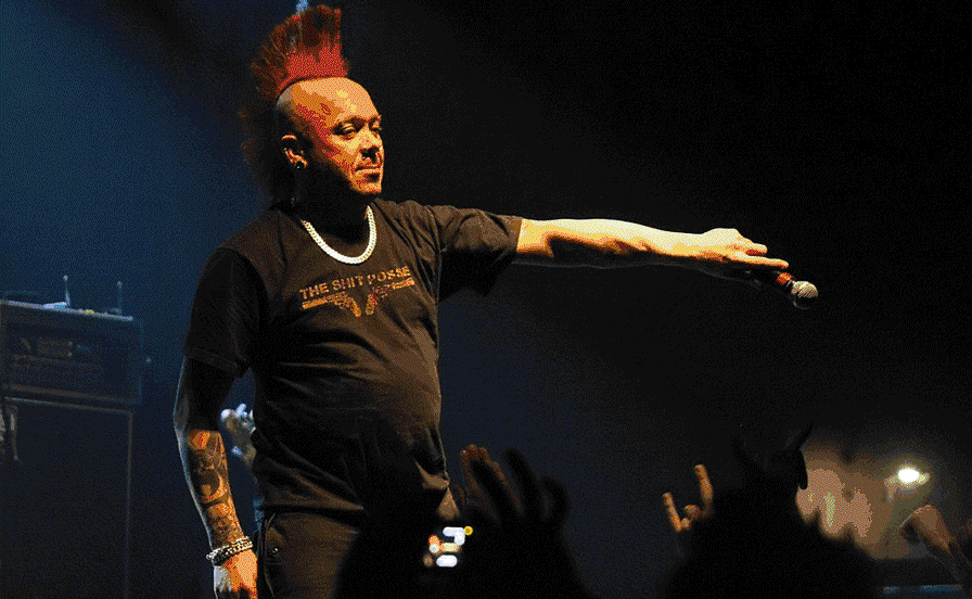 The Exploited in Moscow. Depicted: singer Wattie Buchan.